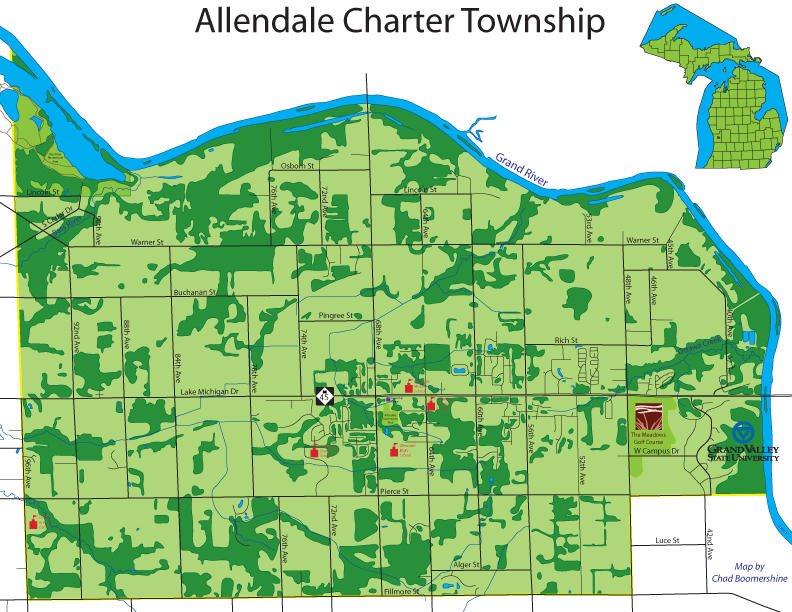 Map of Allendale Charter Township